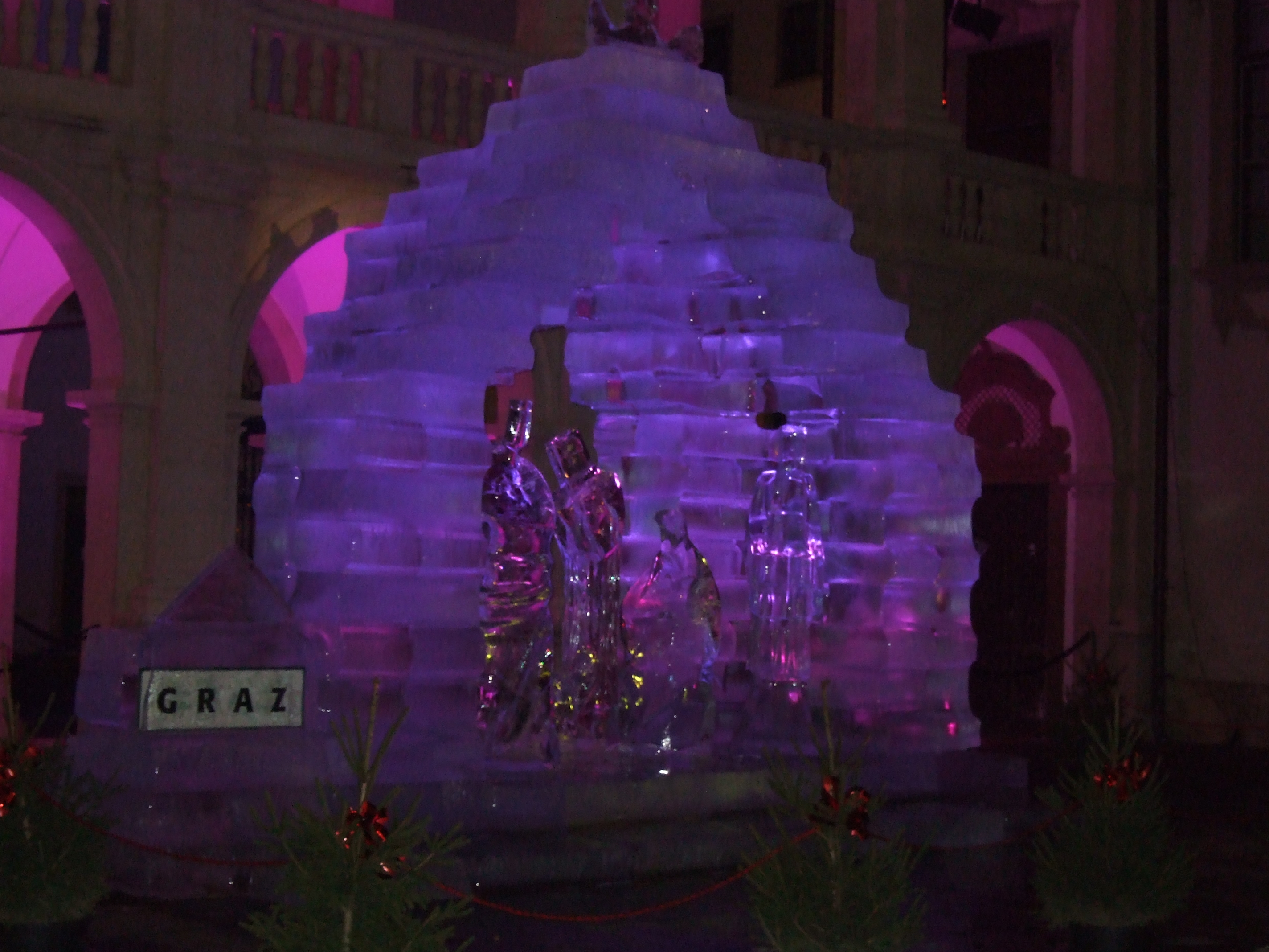 Christmas crib in Graz